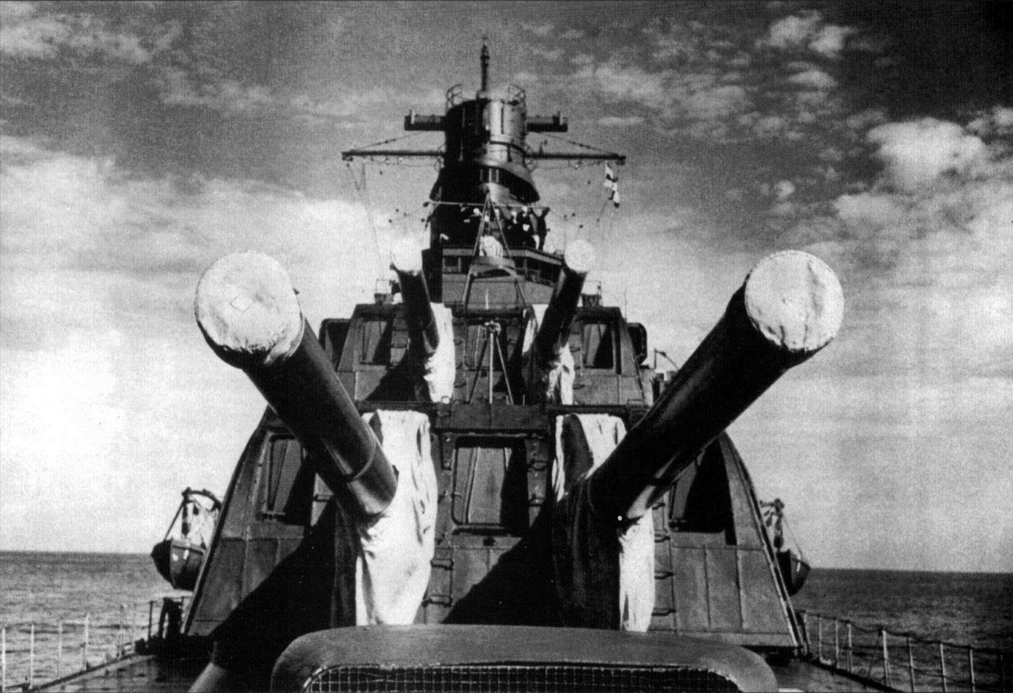 203.2mm/50 3rd Year Type guns in the E2 Model dual gun turrets of the main battery on Imperial Japanese Navy's cruiser Kako. Picture was taken after 1937 refit.